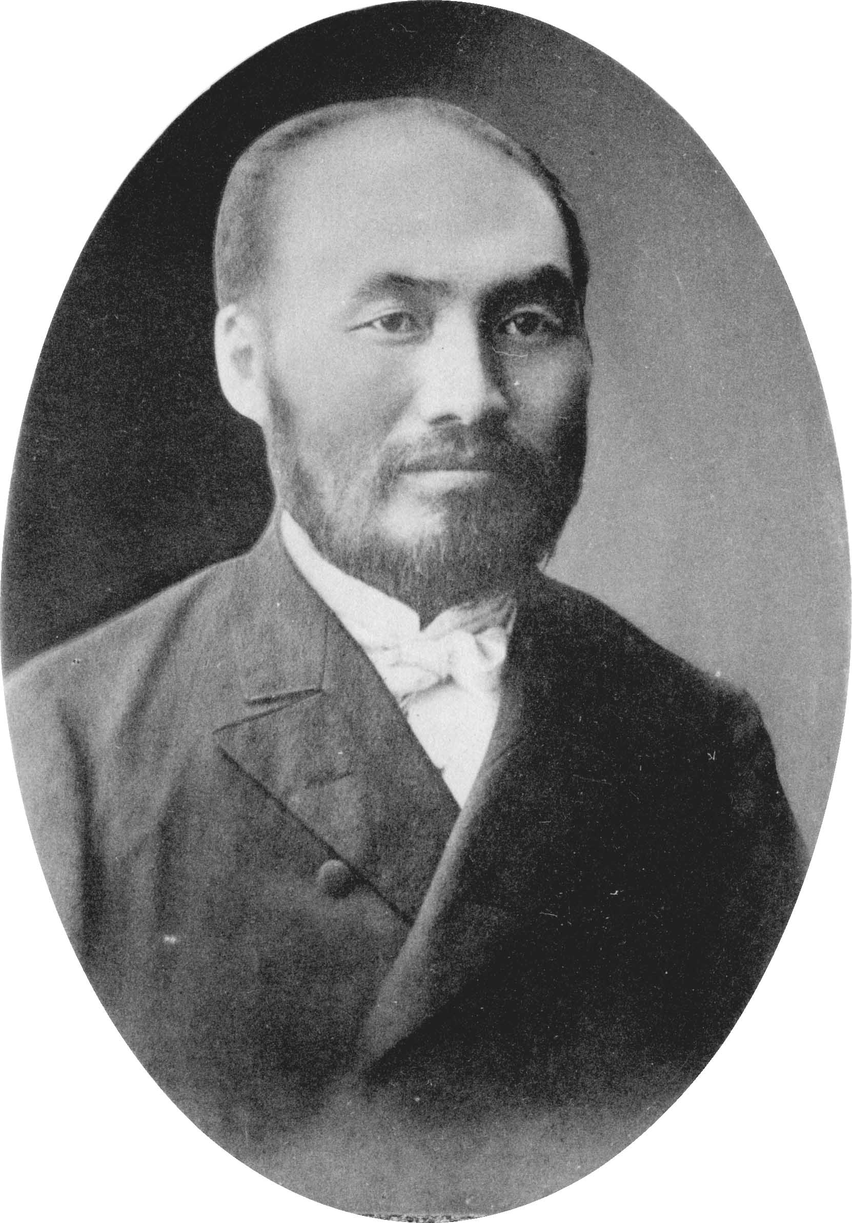 Watanabe Hiromoto, president of the Imperial University.